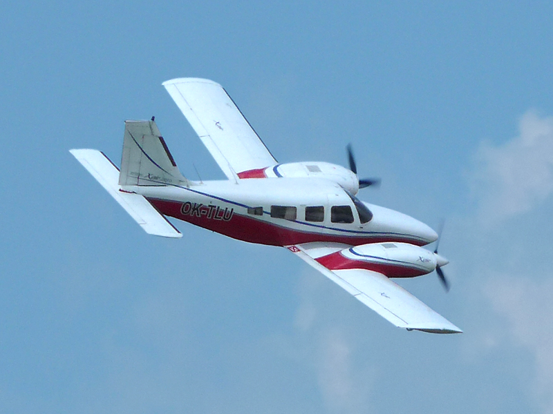 Piper PA-34 Seneca OK-TLU